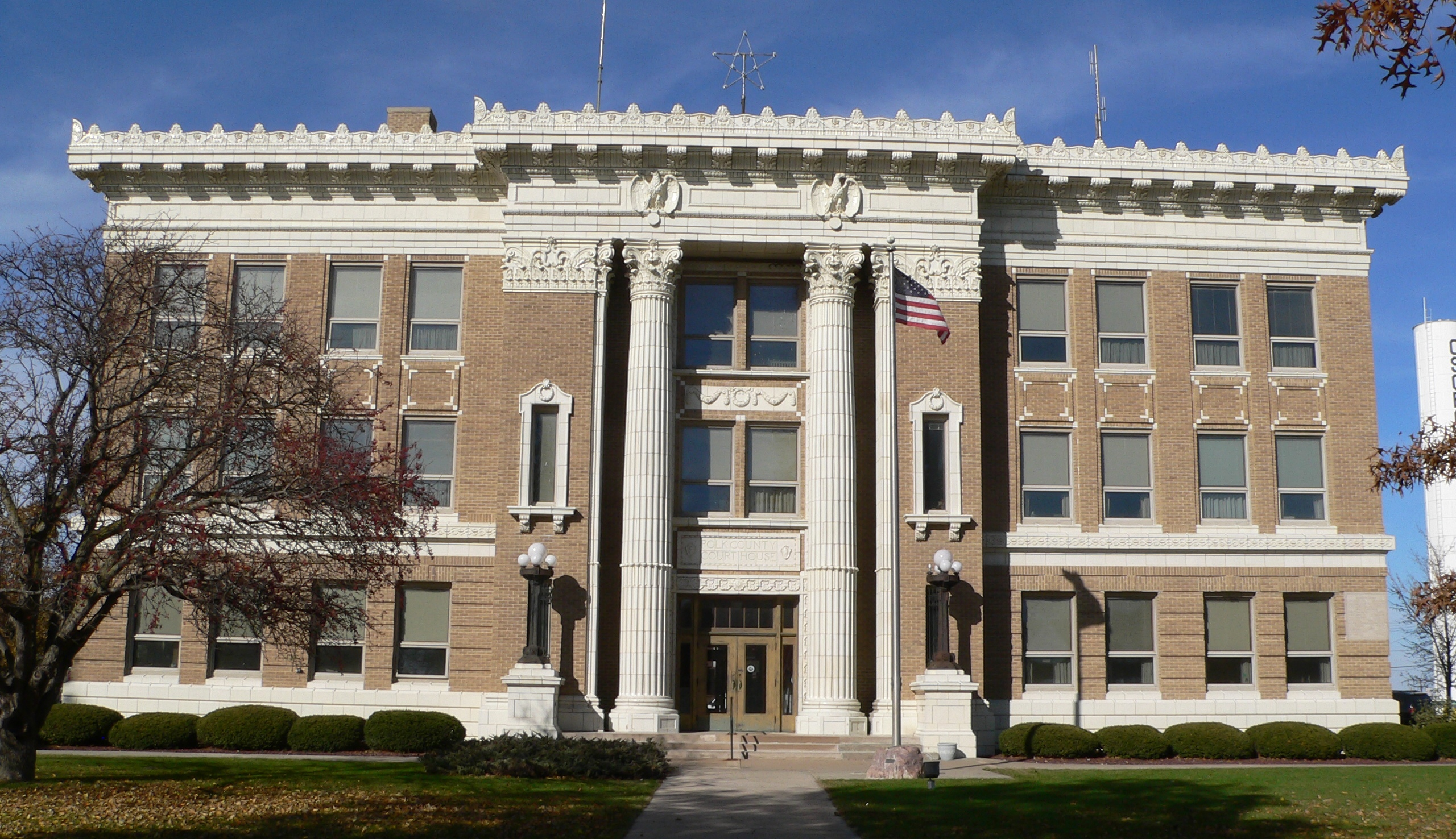 Polk County Courthouse in Osceola, Nebraska. The building, designed by architect William F. Gernandt in Beaux-Arts style, was constructed in 1921. It is listed on the National Register of Historic Places.